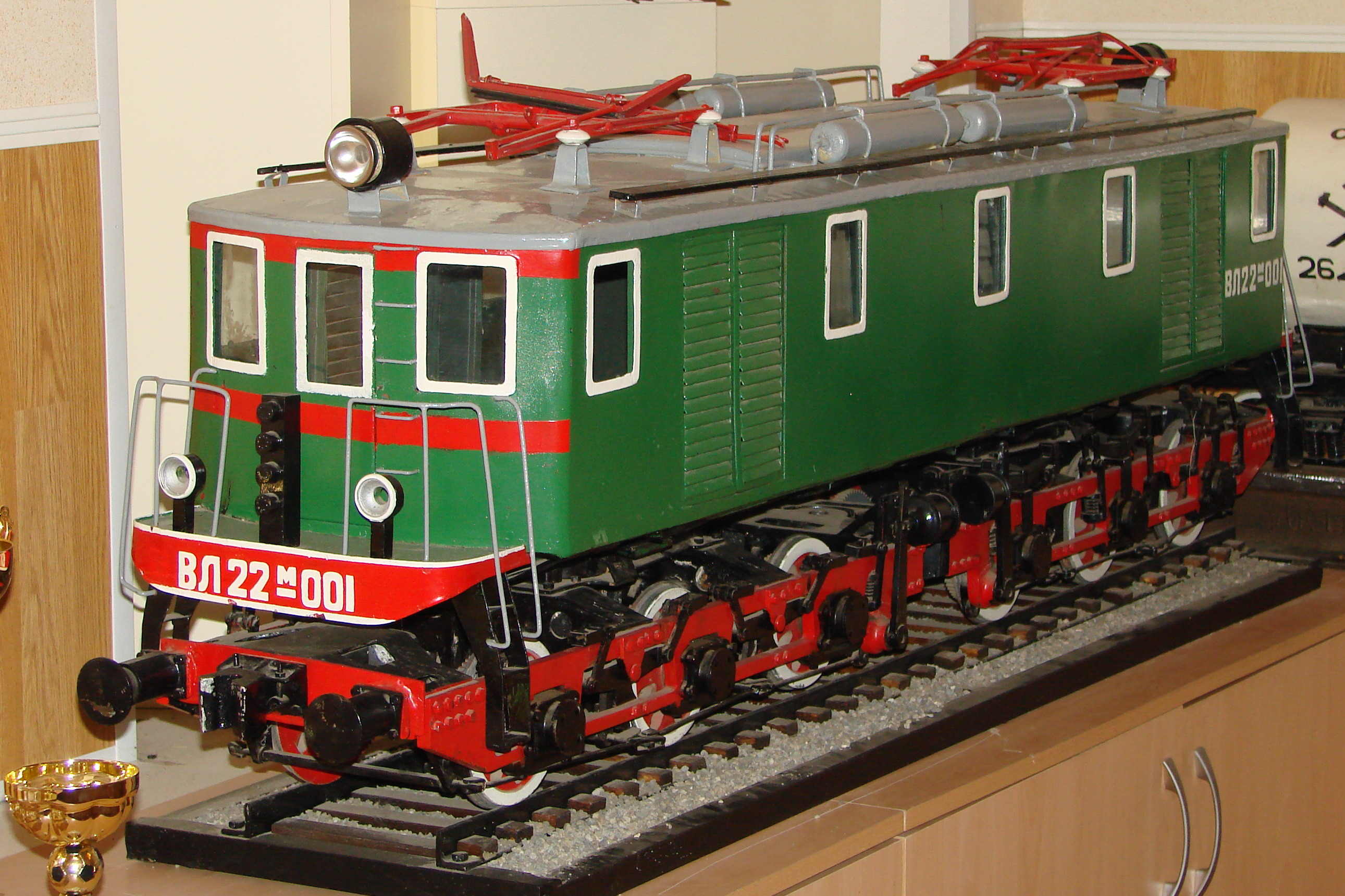 Russia, Vologda, Vologda Railway College Museum, Electric locomotive VL22m